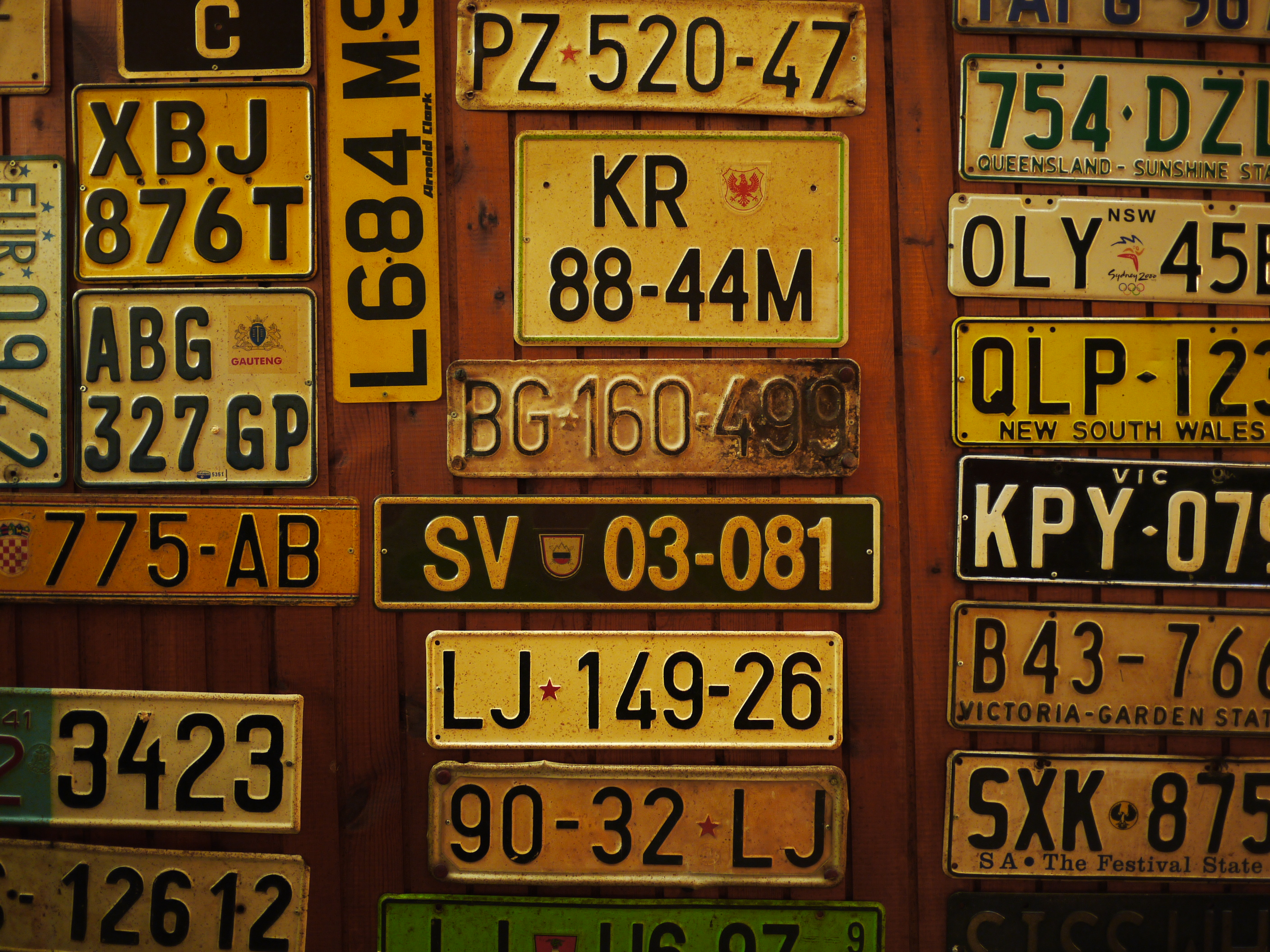 Car number plates